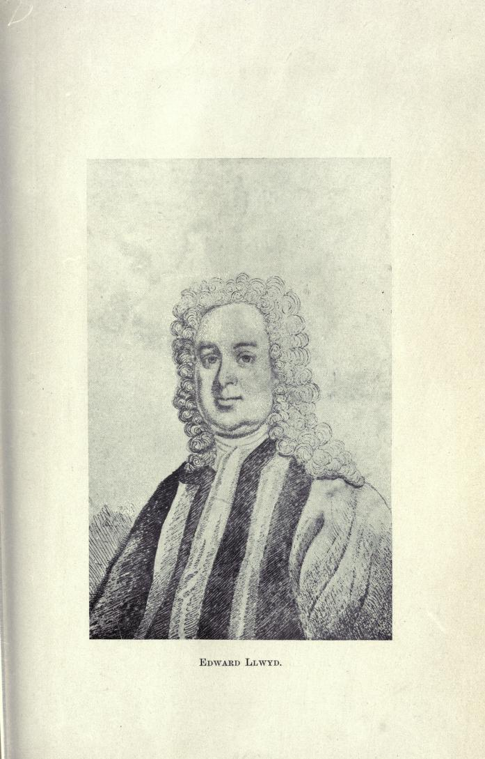 Naturalist Edward Llwyd